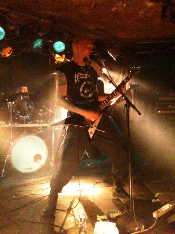 Ares live with Aeternus at Garage in Bergen, Norway, on November 6, 2009.